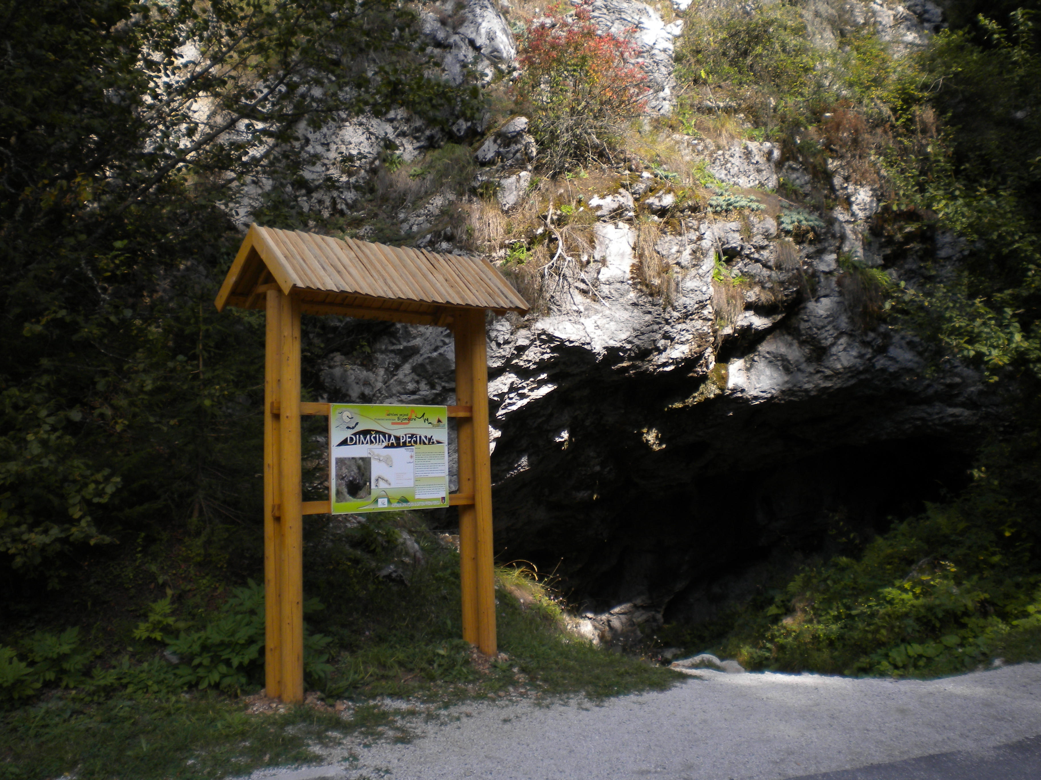 Cave Bijambare Dimso